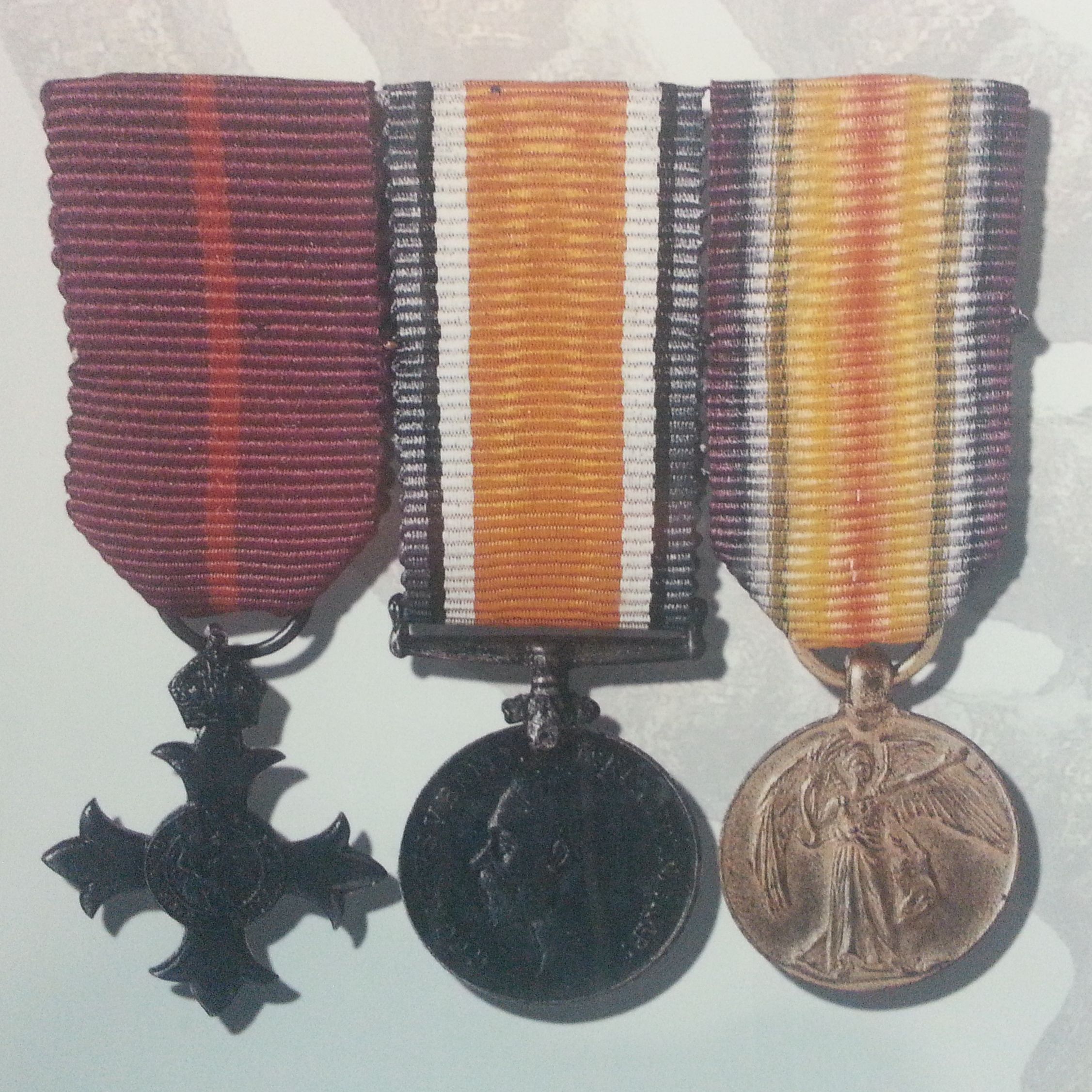 Military decorations of Ze'ev Jabotinsky. Museum exhibit displayed at the Jabotinsky Institute in Tel Aviv.